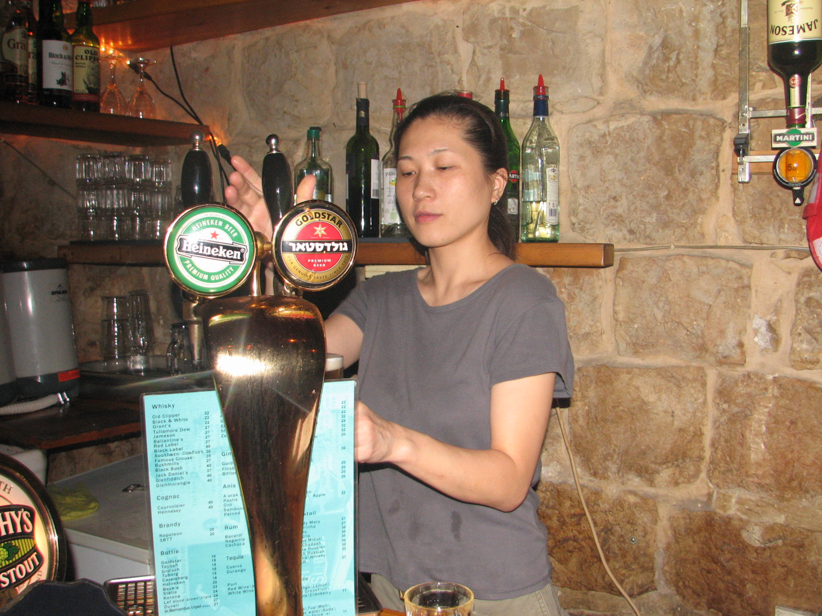 Barmaid of Jerusalem.